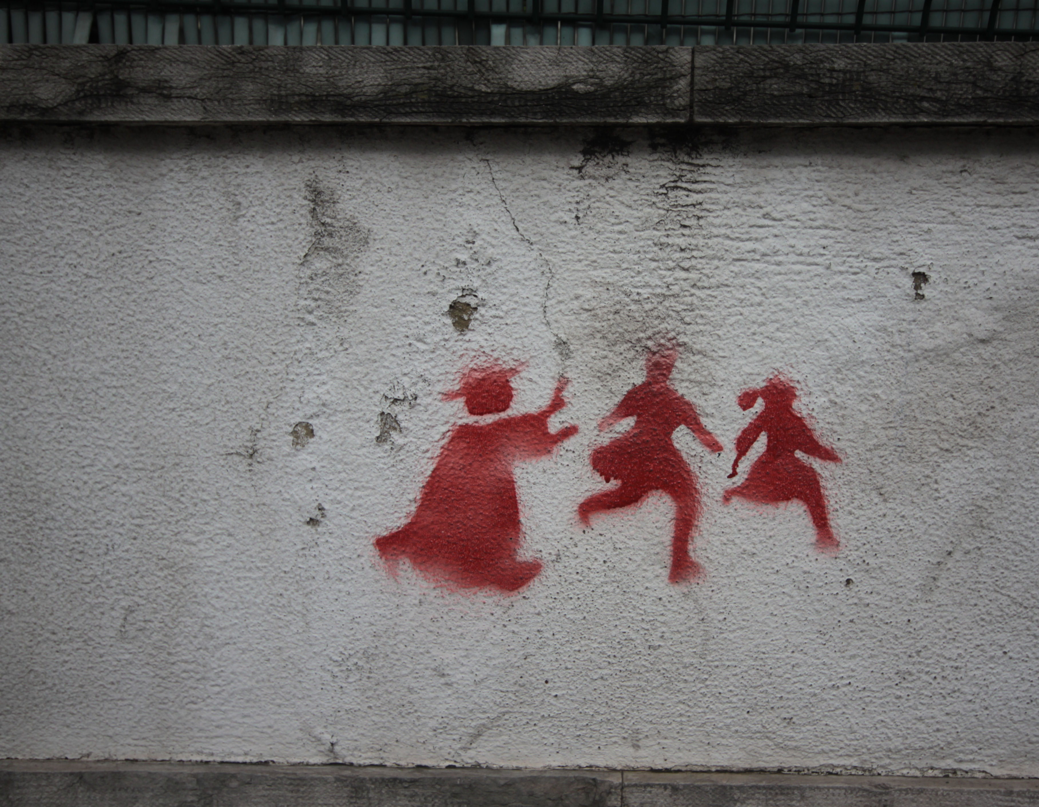 Graffiti on a wall in Lisbon depicting a priest chasing two children, denouncing the child abuse scandal that rocked the catholic church (which is still quite powerful in Portugal). Image taken 2 feb 2011